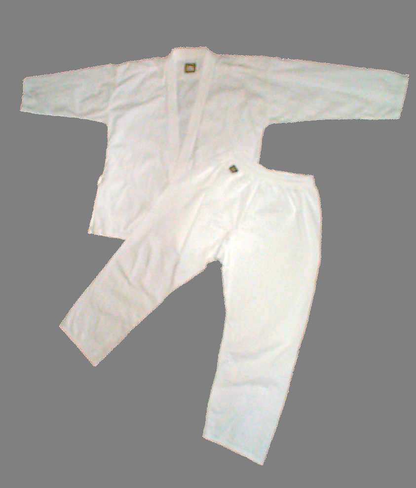 A Japanese training suit called keikogi used in Japanese martial arts consisting of two parts: uwagi (jacket) and zubon (trousers) usually worn with a coloured obi (belt) which is not shown in the photo.